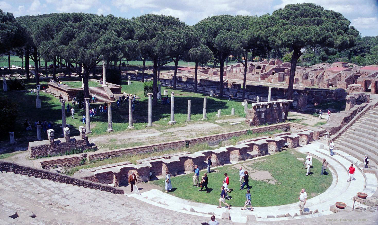 Inside view of the stage and seating area of the theater at Ostia Antica.